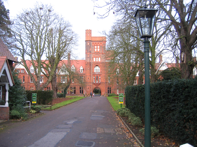 Girton College, Cambridge. Established in 1869 as the first residential College for women at the University, it became mixed in 1977.